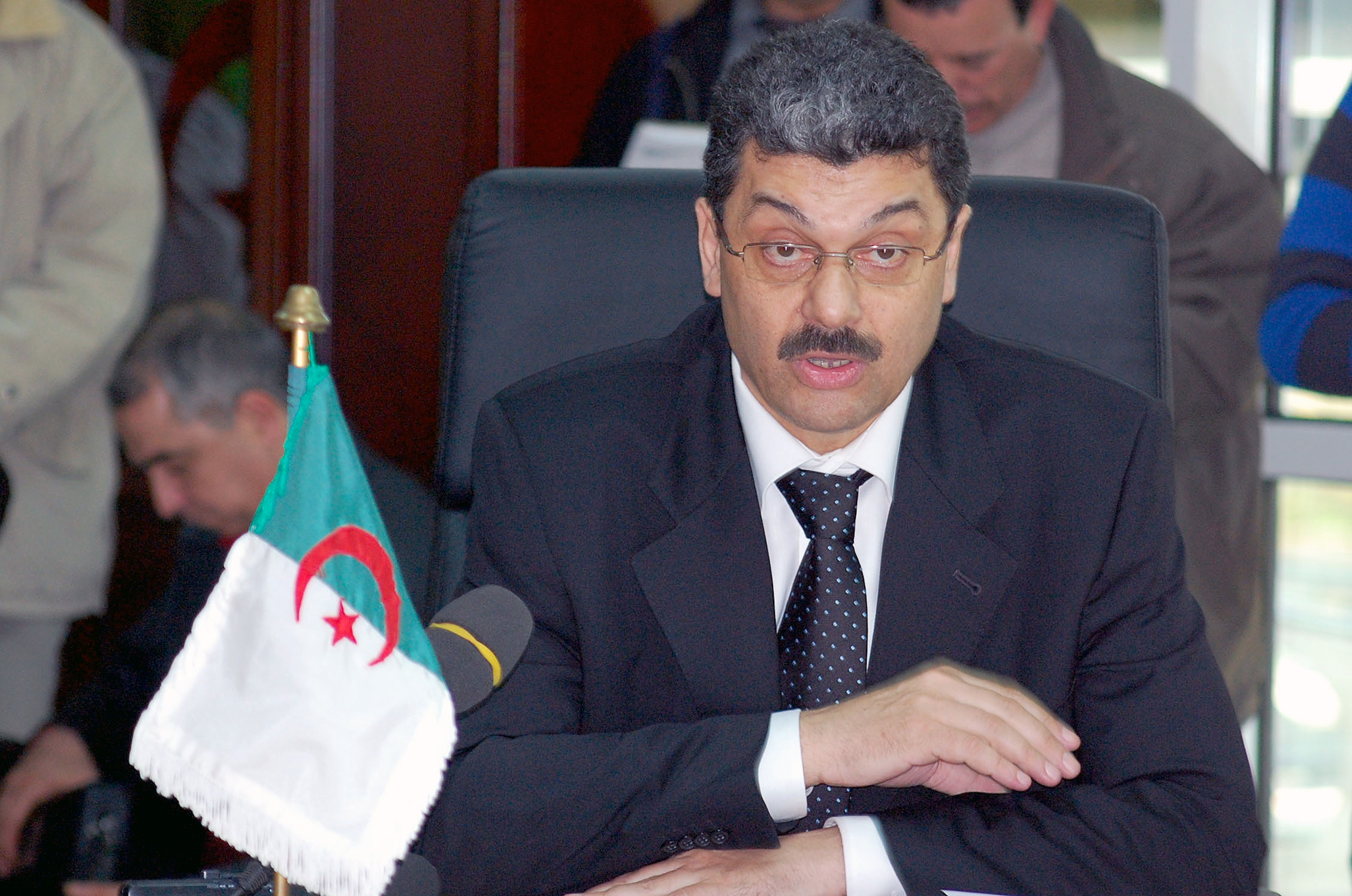 20110817 Algeria investments secure, finance minister says [Mohaned Ouali] Algerian Finance Minister Karim Djoudi is taking steps to reassure the public after recent global financial turmoil.